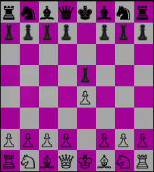 A screenshot of GNU Chess running under macOS with the Hasklig font.